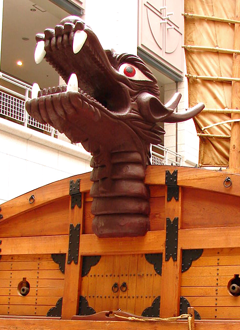 Turtle Ship Dragon Head in the The War Memorial of Korea, opened in 1994, is largely a museum-like War Memorial in Seoul South Korea. The War Memorial has six display rooms displaying over 13,000 documents and war memorabilia items, and an outdoor exhibition center displaying military equipment, illustrating the turbulent times throughout Korea's history.